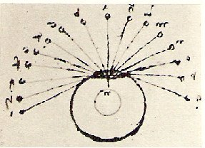 Human Eye with different lines. The line of sight (middle) is the only one permitting a view with good acuity.